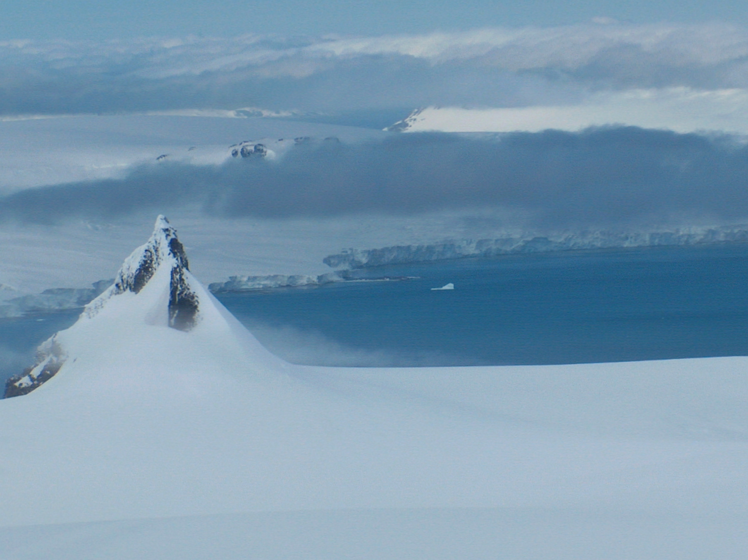 Yovkov Point, Greenwich Island, Antarctica seen from Miziya Peak, Livingston Island